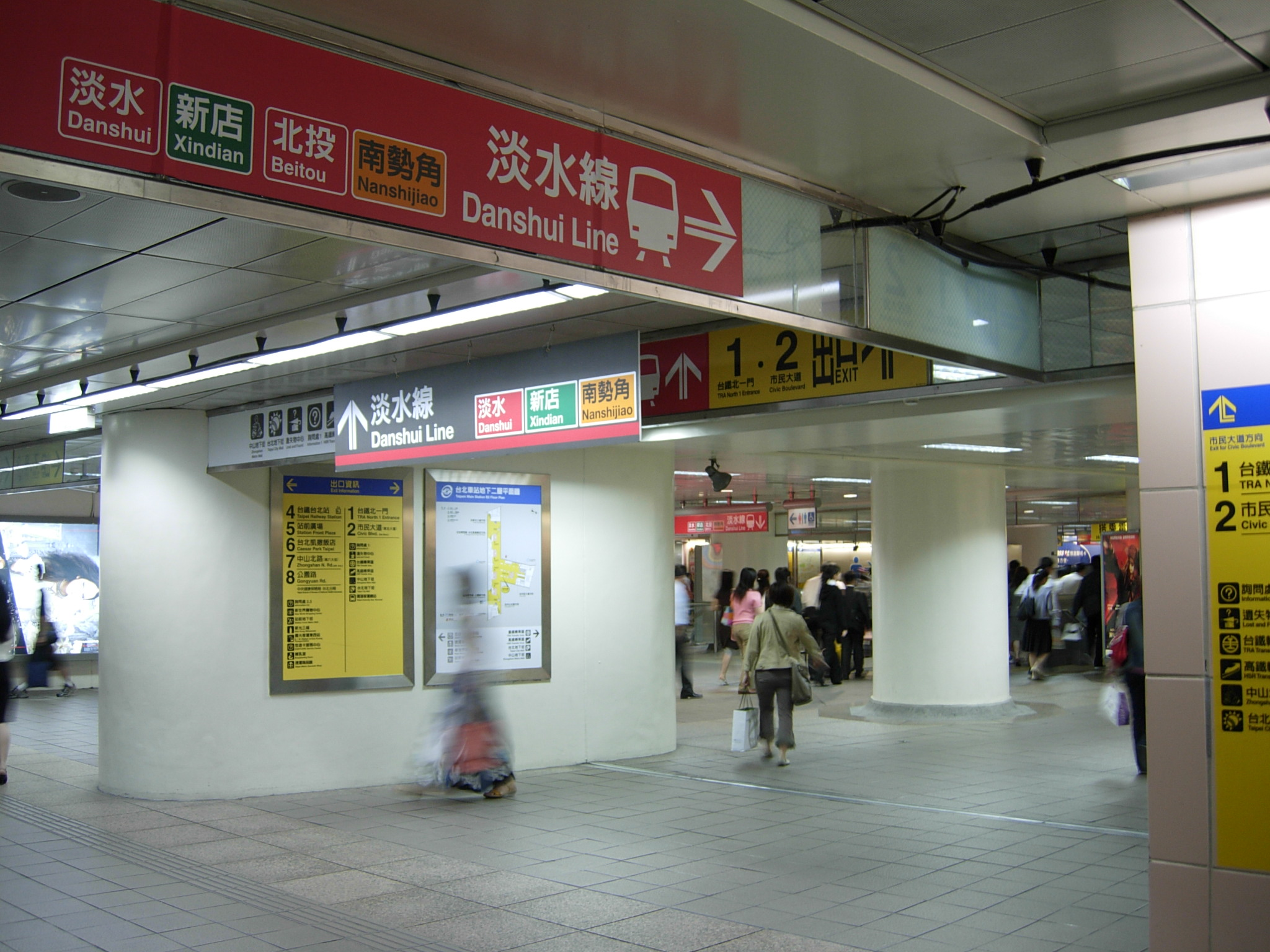 Concourse of Taipei MRT Taipei Main Station